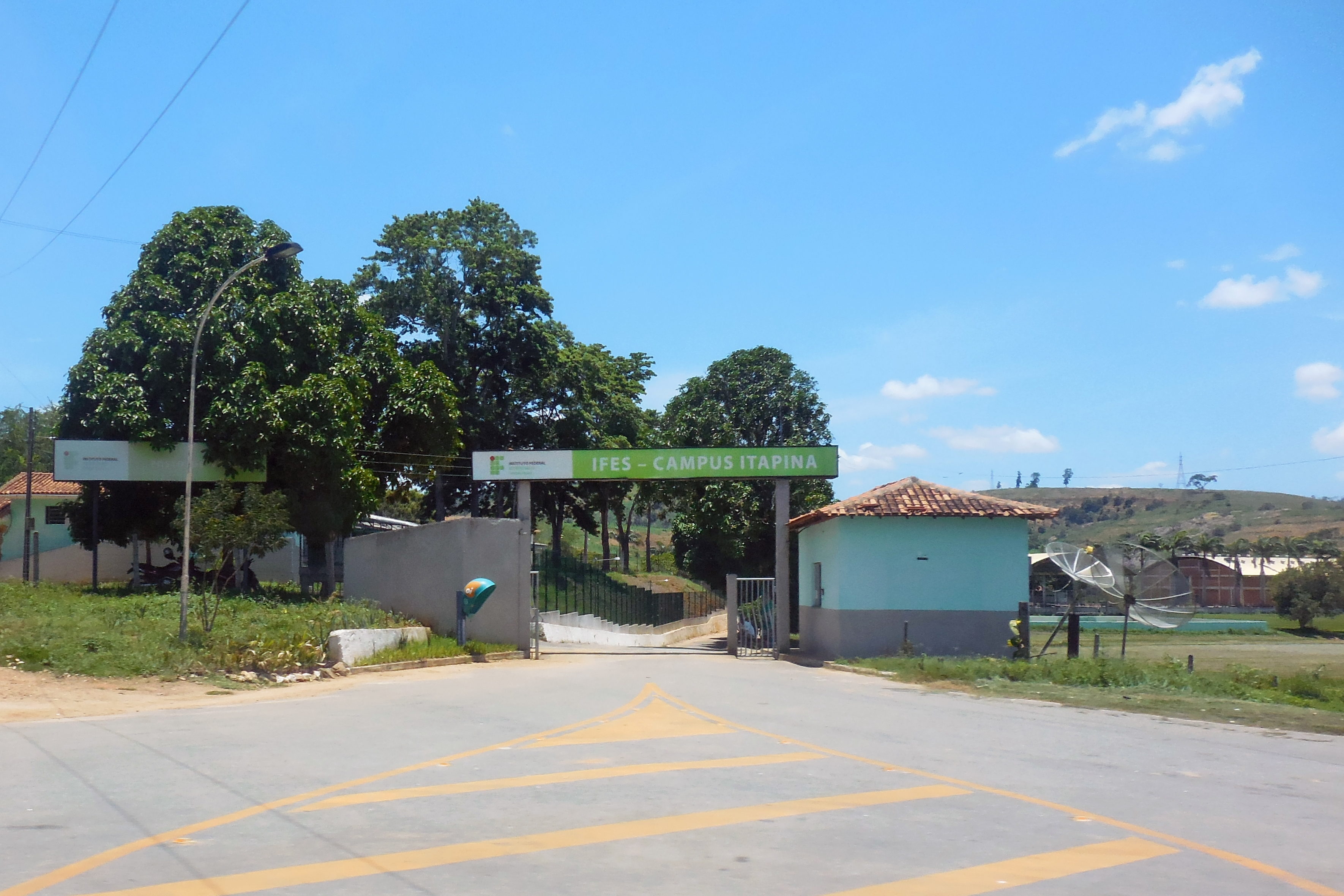 Entrance of the Federal Institute of Espírito Santo (IFES) campus Itapina, in Colatina, Espírito Santo, Brazil.